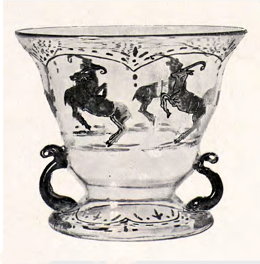 Glazed glass jug of America Cardunets. Magazine "Foment de les Arts Decoratives", 1921